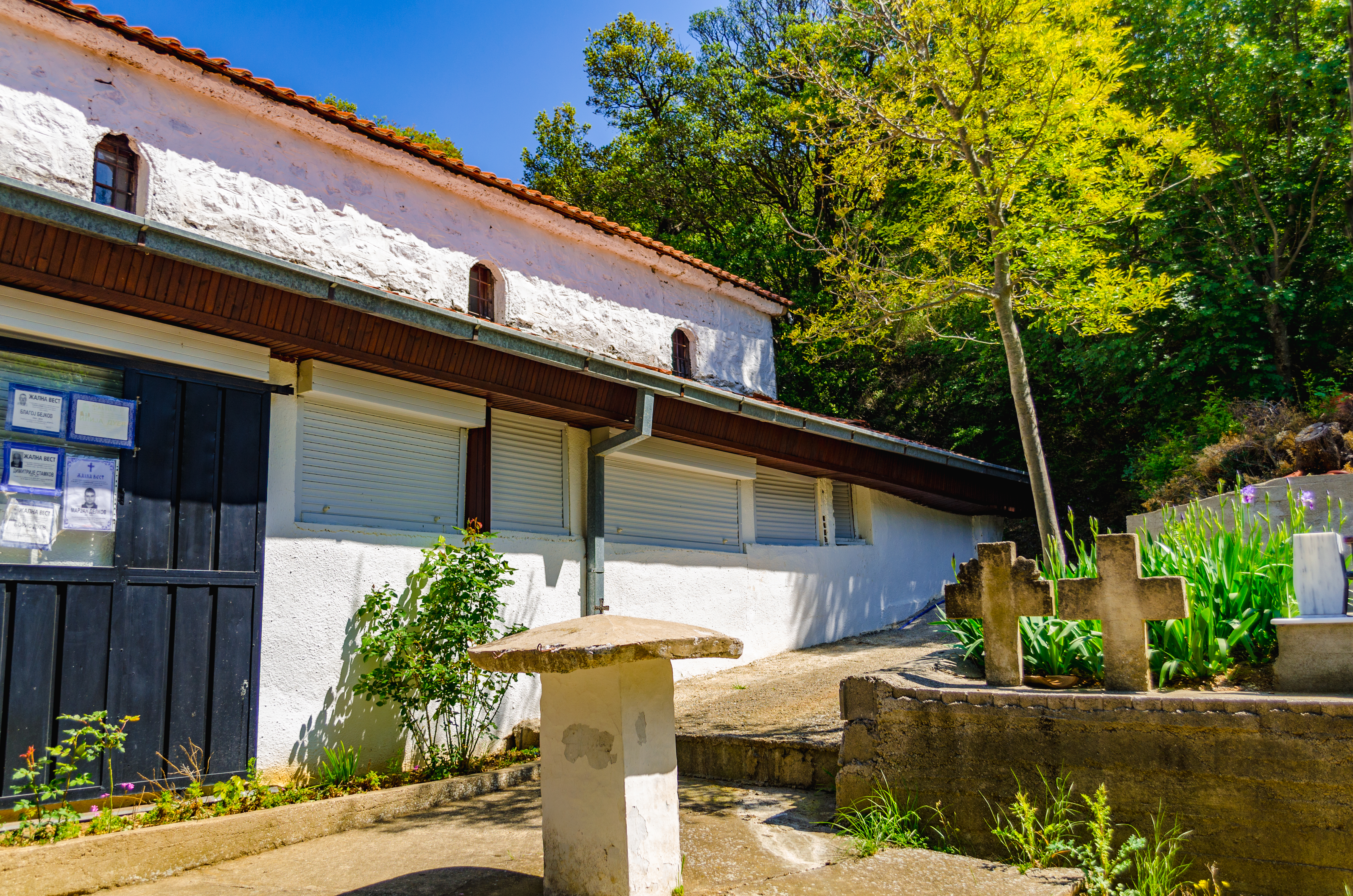 Dormition of the Theotokos Church in the village Ǵavato